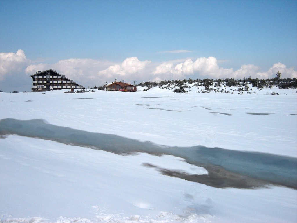 Bezbog Mountain Hut, Pirin Mountains, Southwest Bulgaria